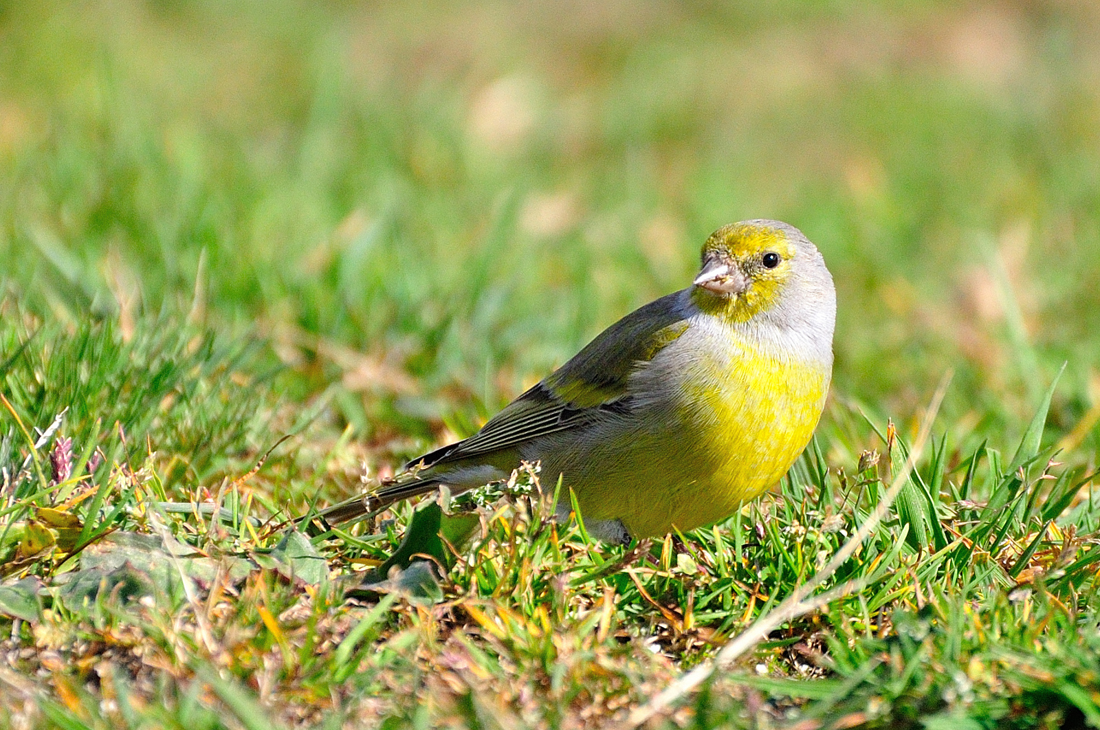 A Citril Finch at Plateau de Beille, Ariege, Midi-Pyrenee, France.